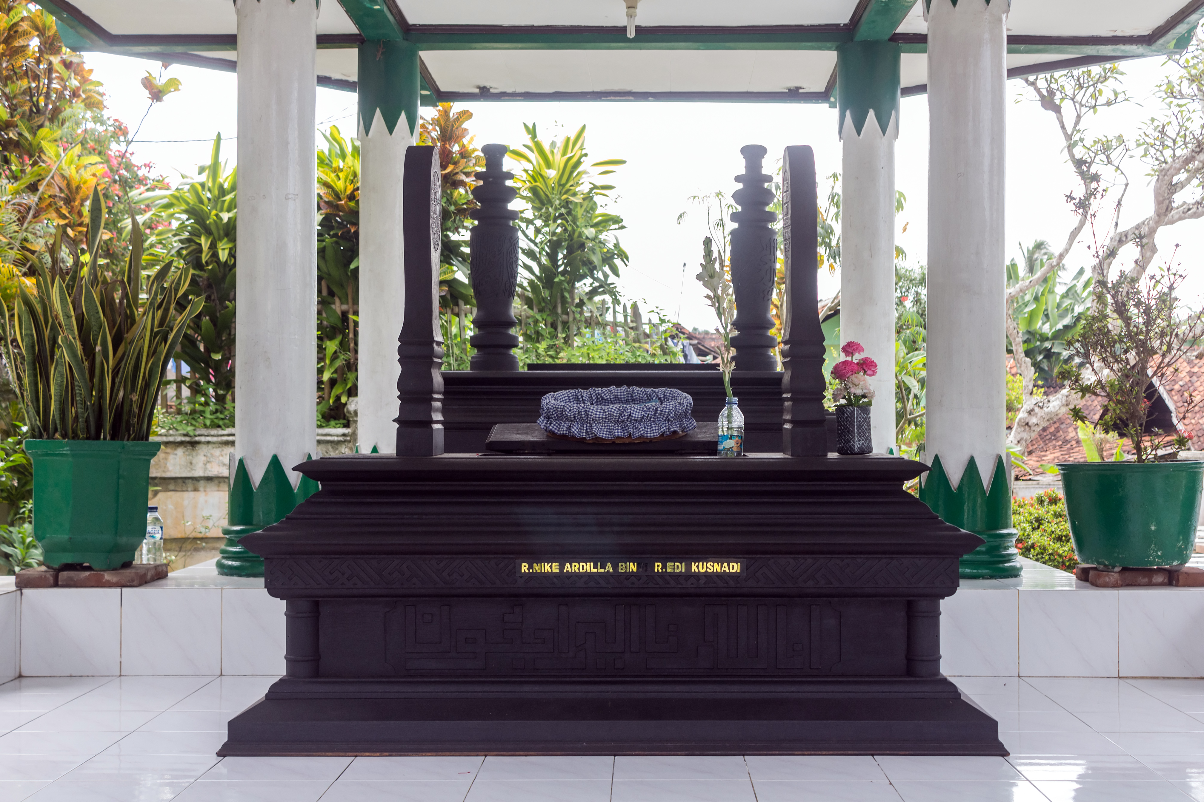 Grave of Nike Ardilla, Ciamis, West Java 2017-03-10